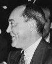 Prime Minister Mohammad Mossadegh of Iran delighted by a remark made by Ernest A. Gross at the United Nations Security Council in New York City.